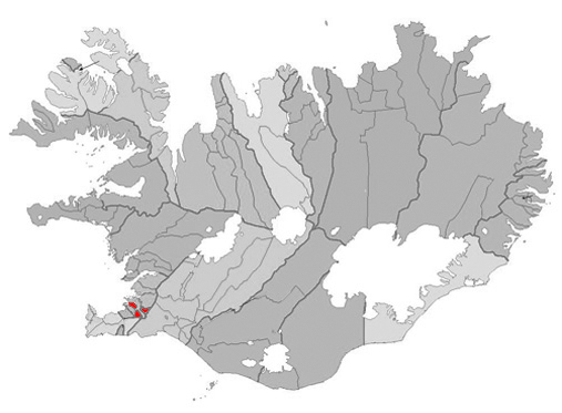 Based on Municipalities of Iceland.png.